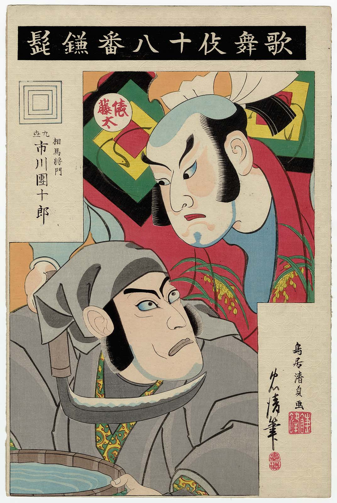 Part of the series The Eighteen Great Kabuki Plays